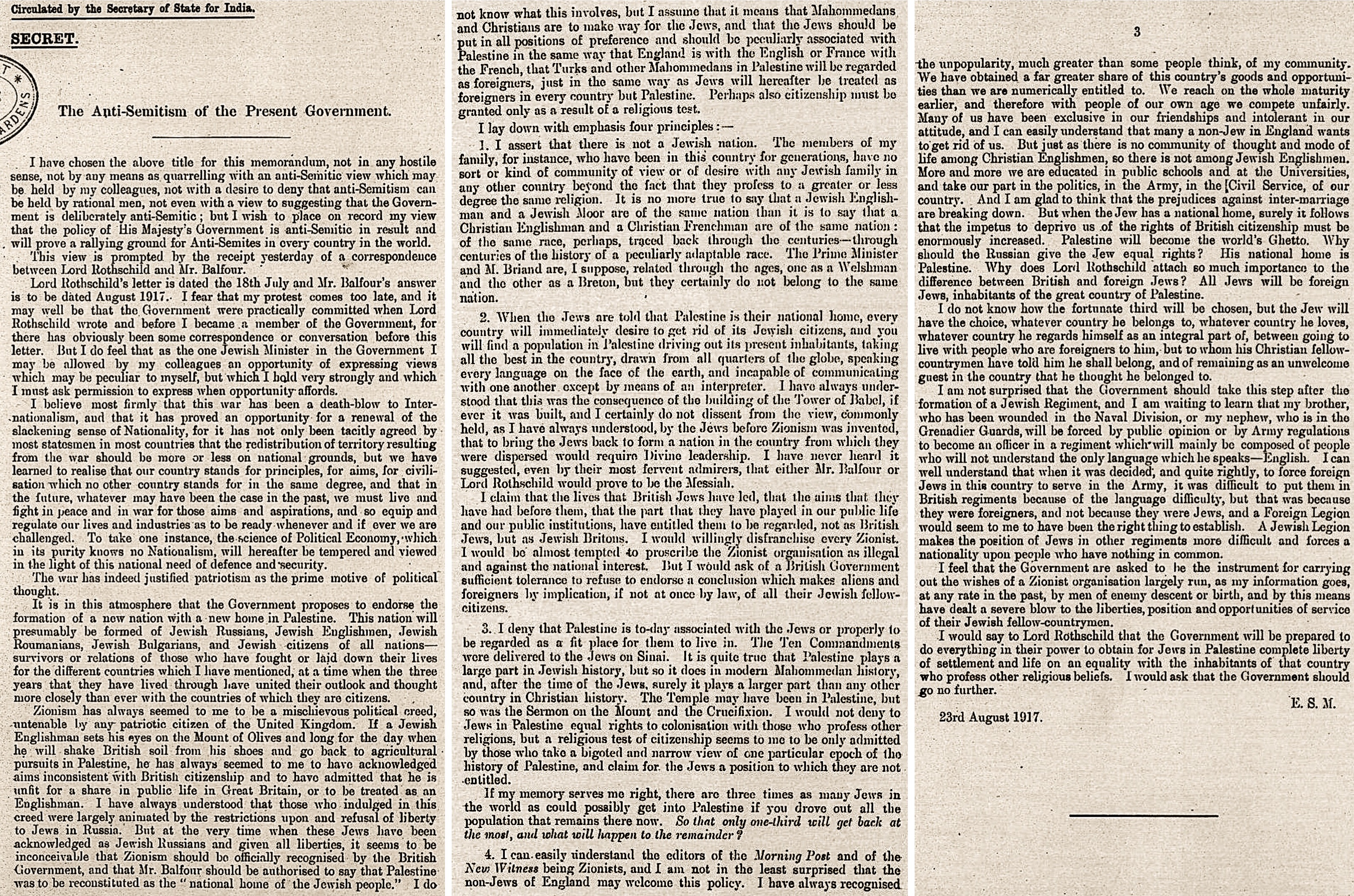 British Cabinet memorandum, submitted by Edwin Montagu